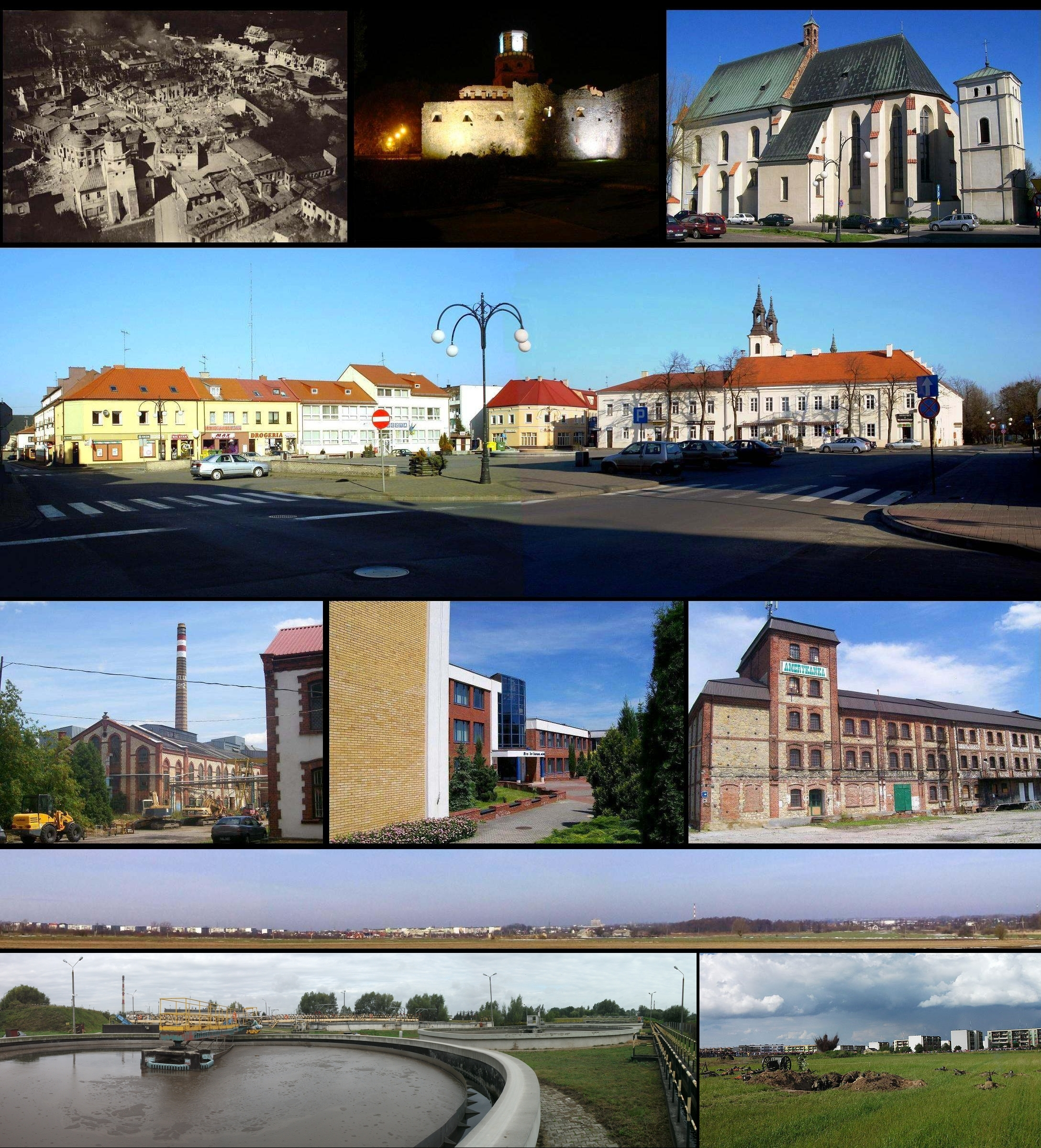 Church of St. Mary in Wieluń